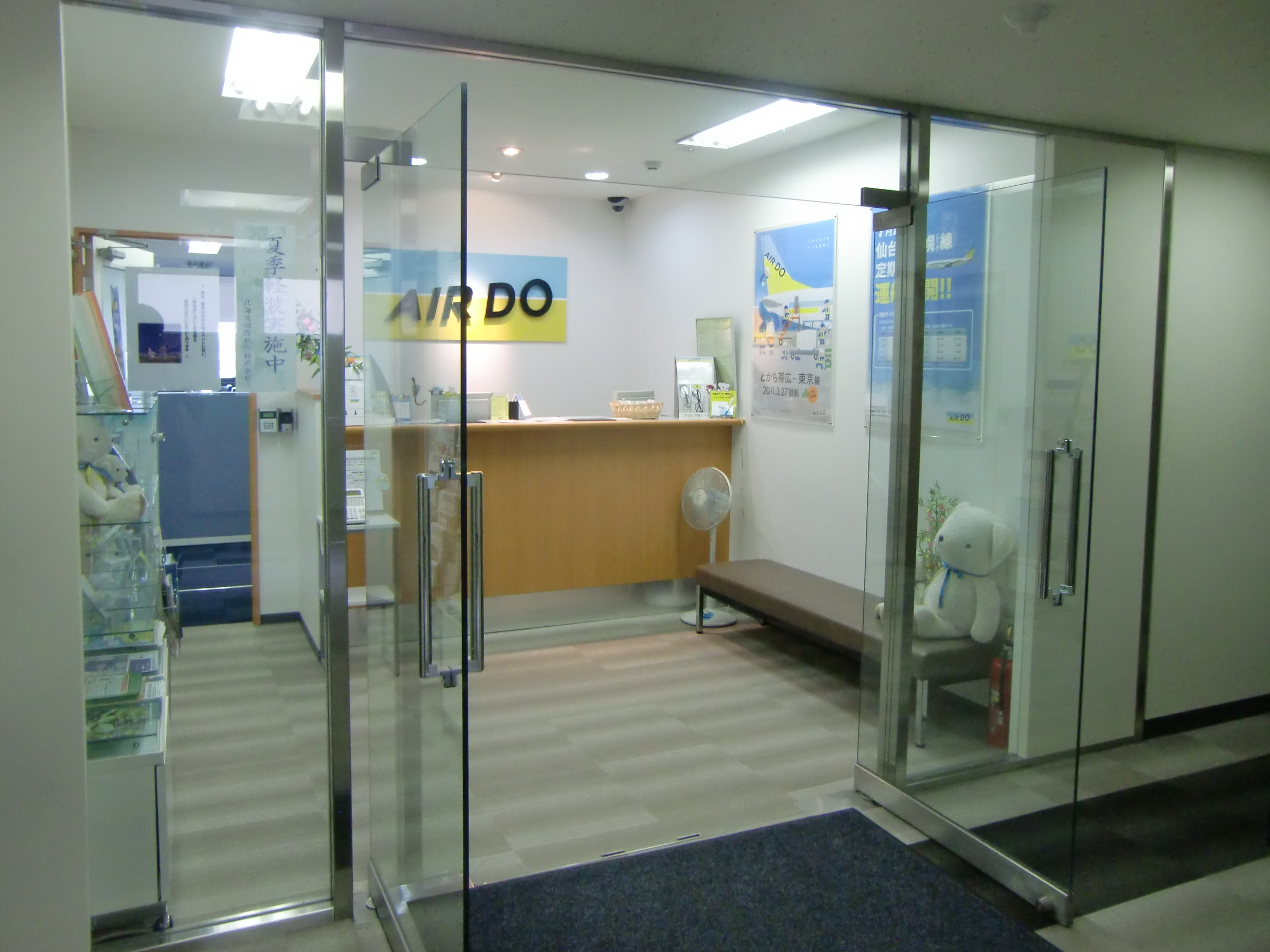 Hokkaido International Airlines(AIR DO) head office, Chuo-ward, Sapporo-city, Hokkaido, JAPAN.